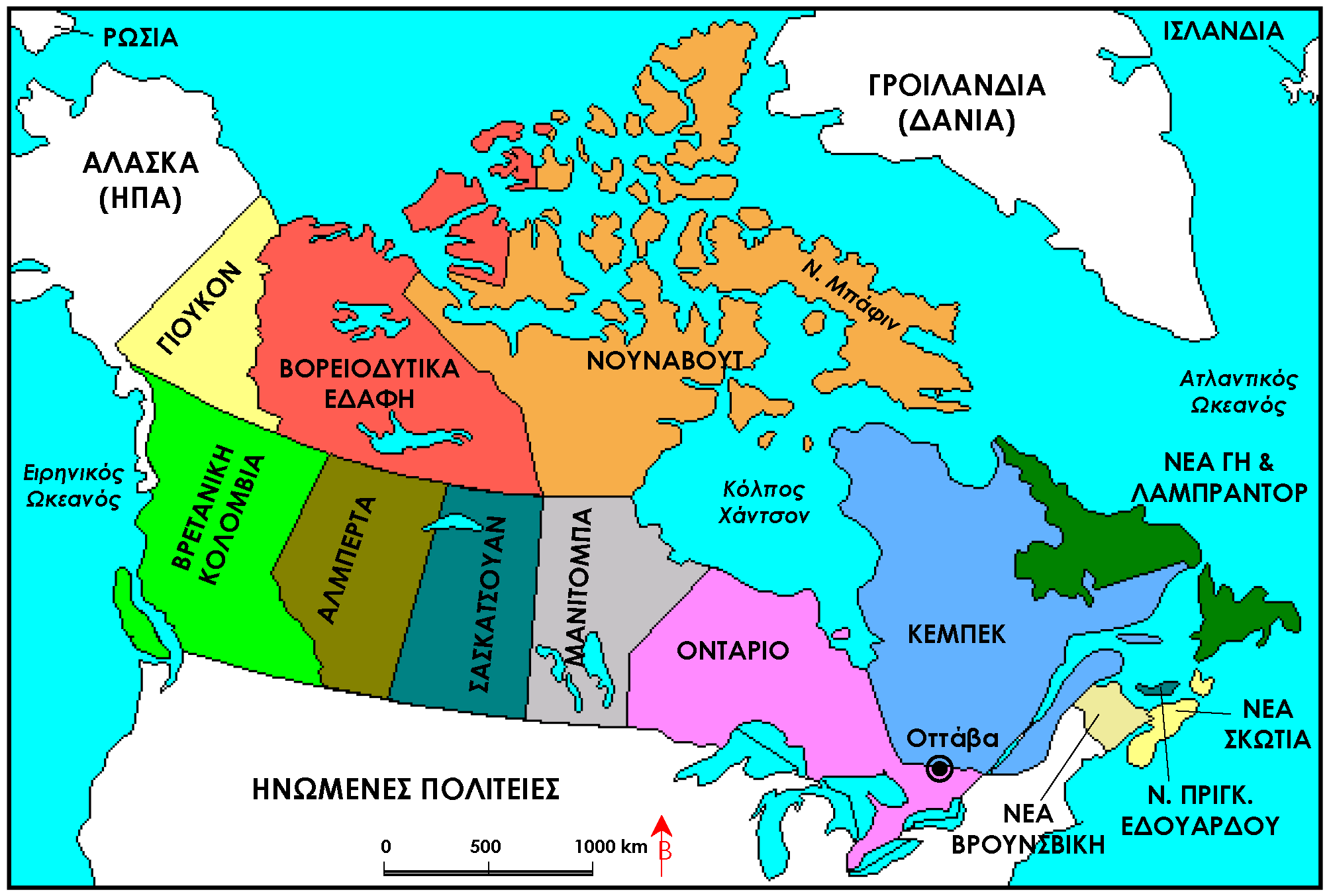 Map of Canada in Greek